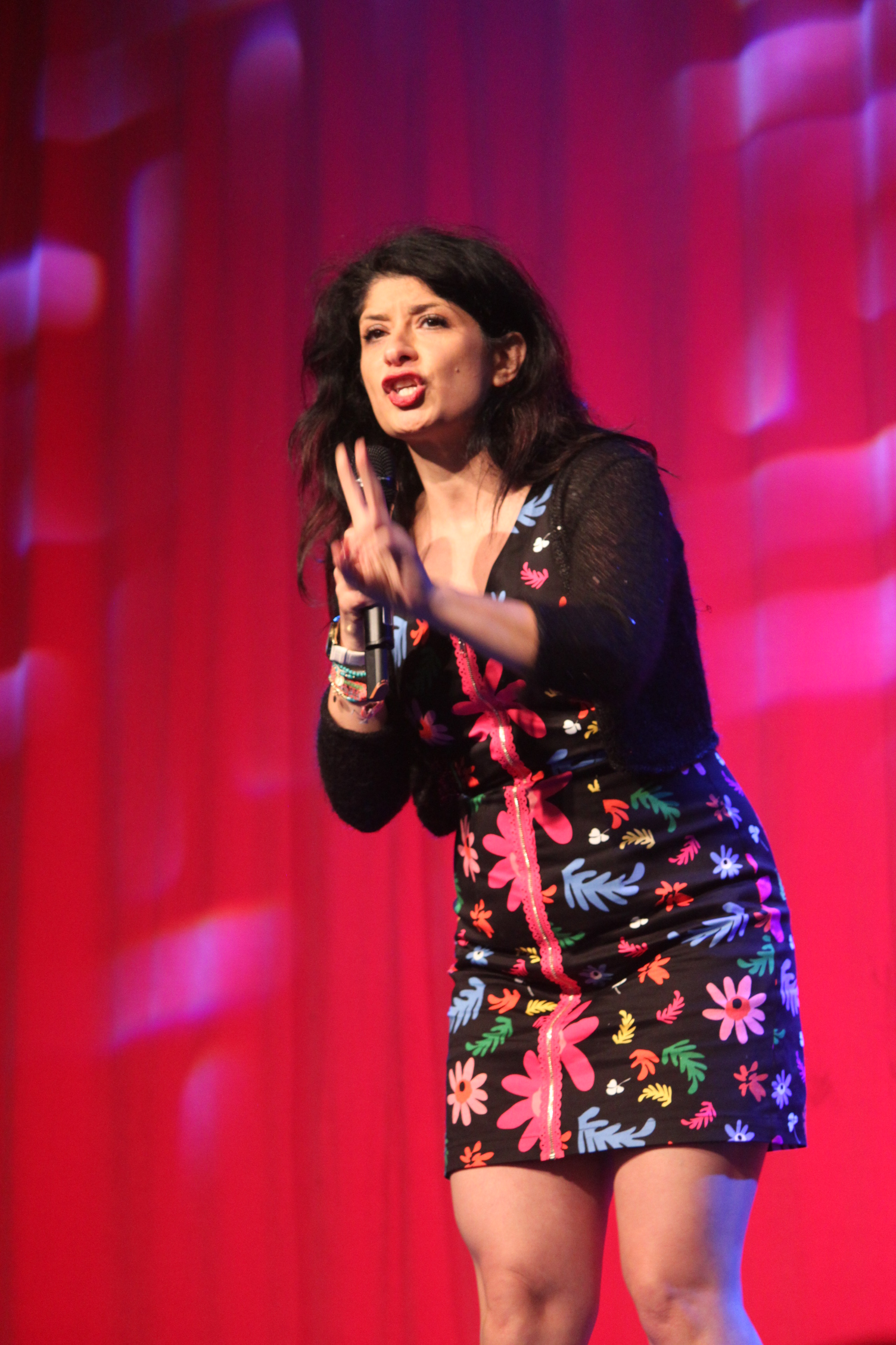 Shappi Khorsandi at Glastonbury Festival 2015